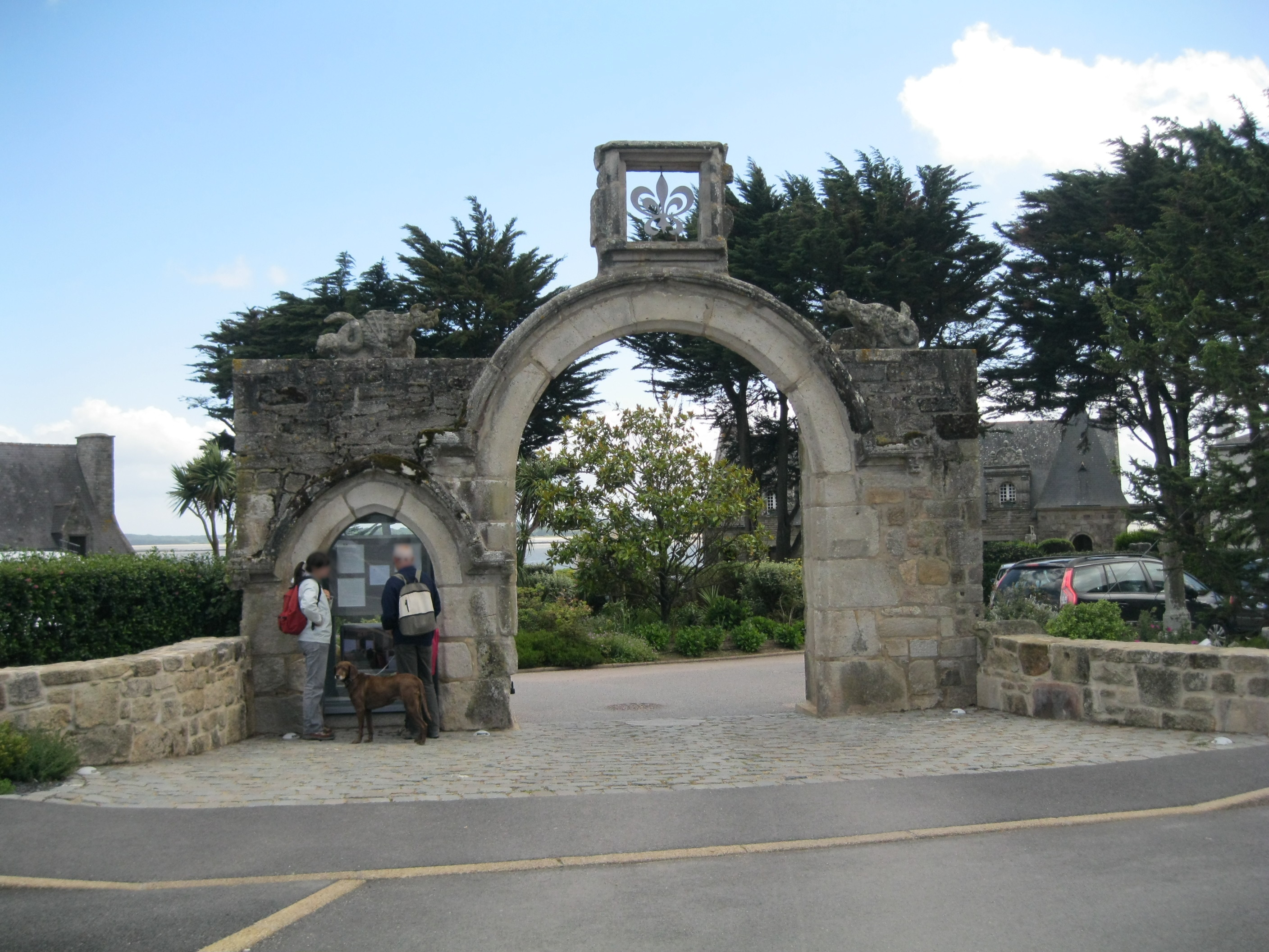 Rochevilaine estate portal on Pen Lan spit near town Billiers in the Morbihan département of Brittany in north-western France.